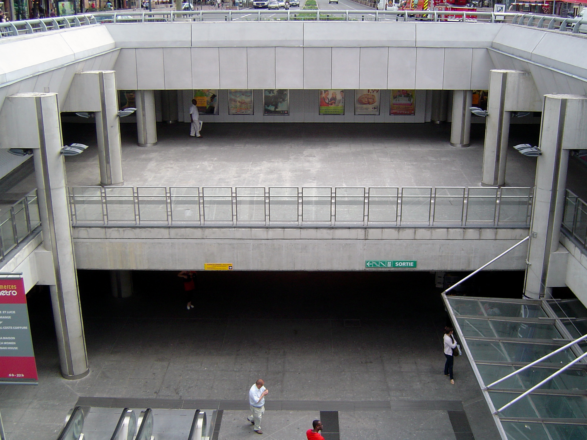 Hall of the Jean Jaurès Toulouse metro station